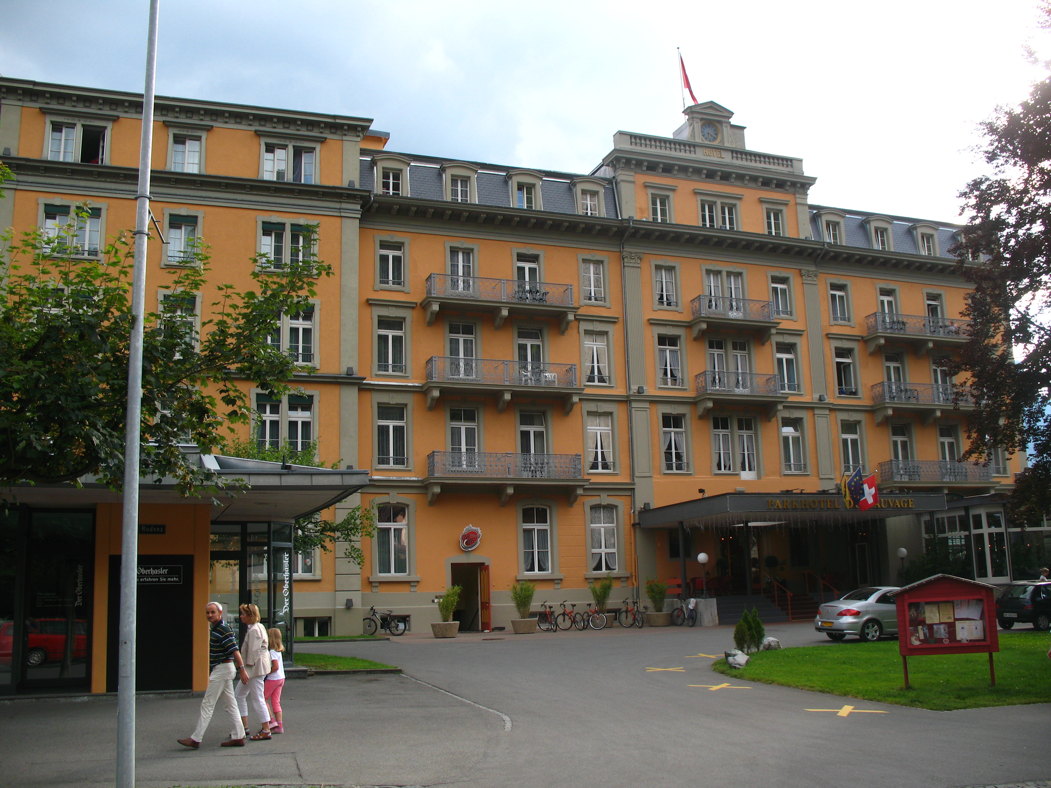 Park Hotel du Sauvage, Meiringen, Switzerland